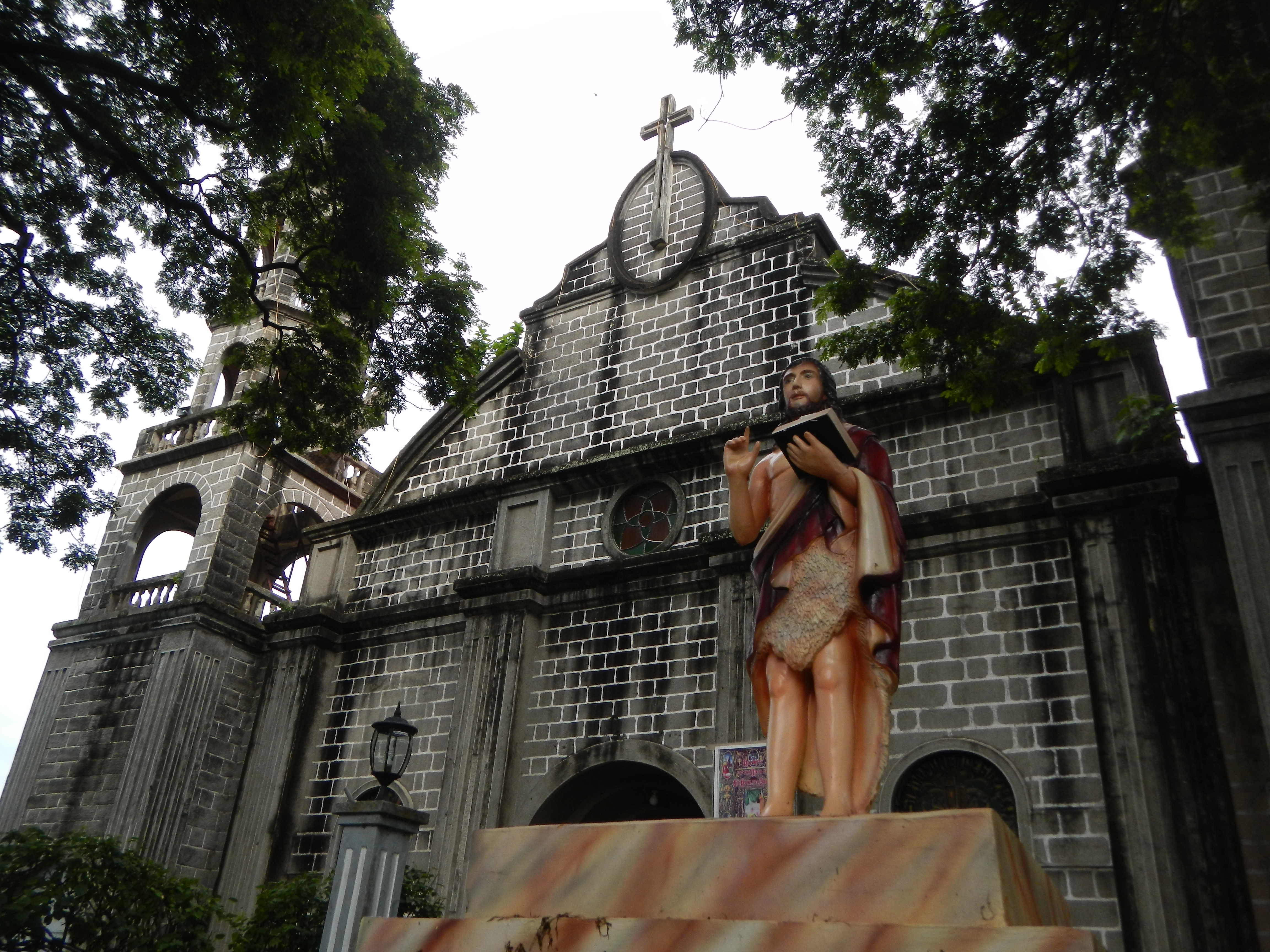 Saint John the Baptist Parish Church of Calamba: Established in 1859, it was burned by the Japanese during World War II. It was reconstructed by Fr. Eliseo Dimaculangan. It was the christening site of José Rizal. The original baptismal font has been preserved and refurbished.--- Calamba, Laguna[1] (NSCB: 043405000) is a component city of Laguna, [2] Philippines. It is the regional center of the CALABARZON region. Calamba became the second component city of the Laguna by virtue of Republic Act No. 9024, “An Act Converting the Municipality of Calamba, Province of Laguna into a Component City to be known as the City of Calamba.” R.A. 9024 was signed into law by President Gloria Macapagal-Arroyo on March 5, 2001, at the Malacañan Palace. [3] Coordinates: 14°11'15"N 121°6'32"E 2013 Election Results Mayor: Justin Marc S.B. Chipeco (Nacionalista)[4] Vice Mayor: Roseller H. Rizal (Nacionalista) [5] geographical location: Laguna, Region 4, Philippines, Asia Geographical coordinates: 14° 12' 42" North, 121° 9' 55" East This place is situated in Laguna, Region 4, Philippines, its geographical coordinates are 14° 12' 42" North, 121° 9' 55" East and its original name (with diacritics) is Calamba. - José Rizal, [6] Website, New City Hall